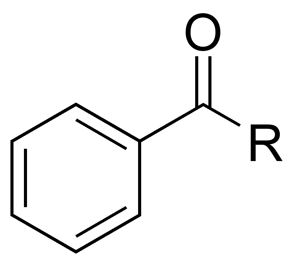 Chemical structure of a benzoyl group